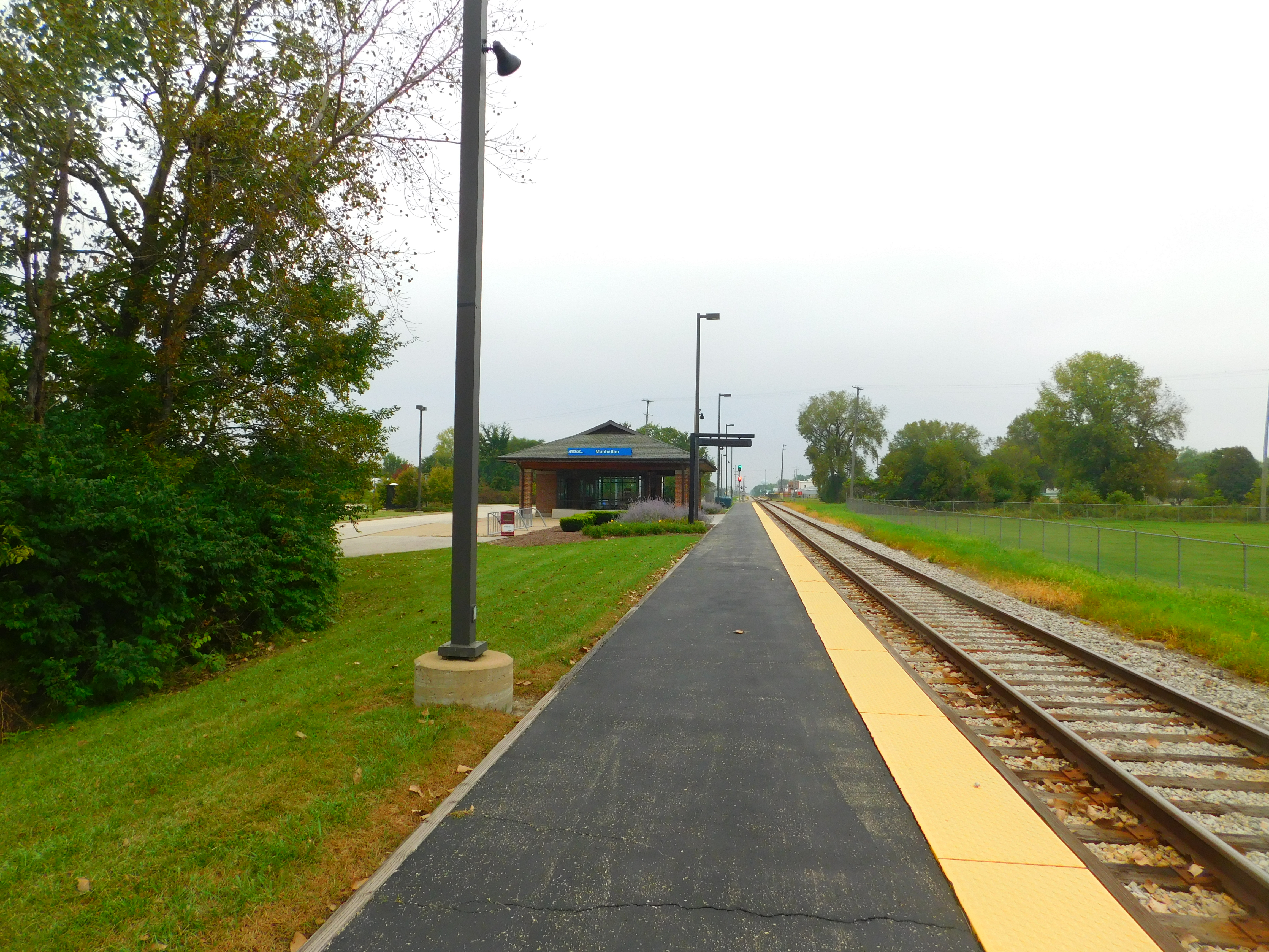 The Metra\Metra station for Manhattan, Illinois in September 2016.